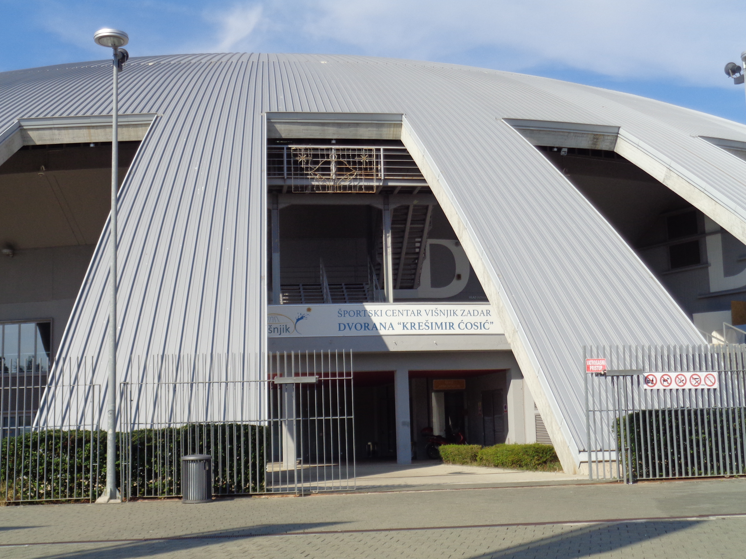 "Krešimir Ćosić" Hall at Višnjik Sports Centre, Zadar, Croatia - entrance